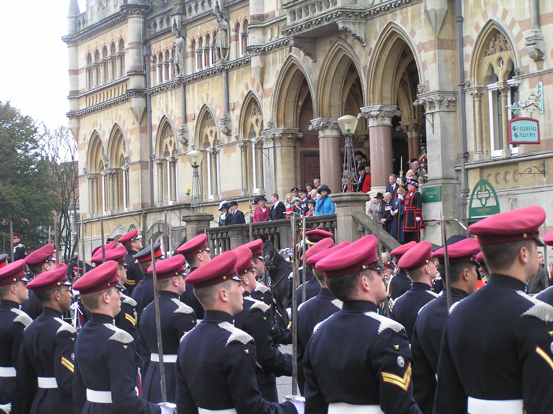 The Guildhall Freedom of The City of Winchester given to the Kings Royal Hussars by Princess Ann